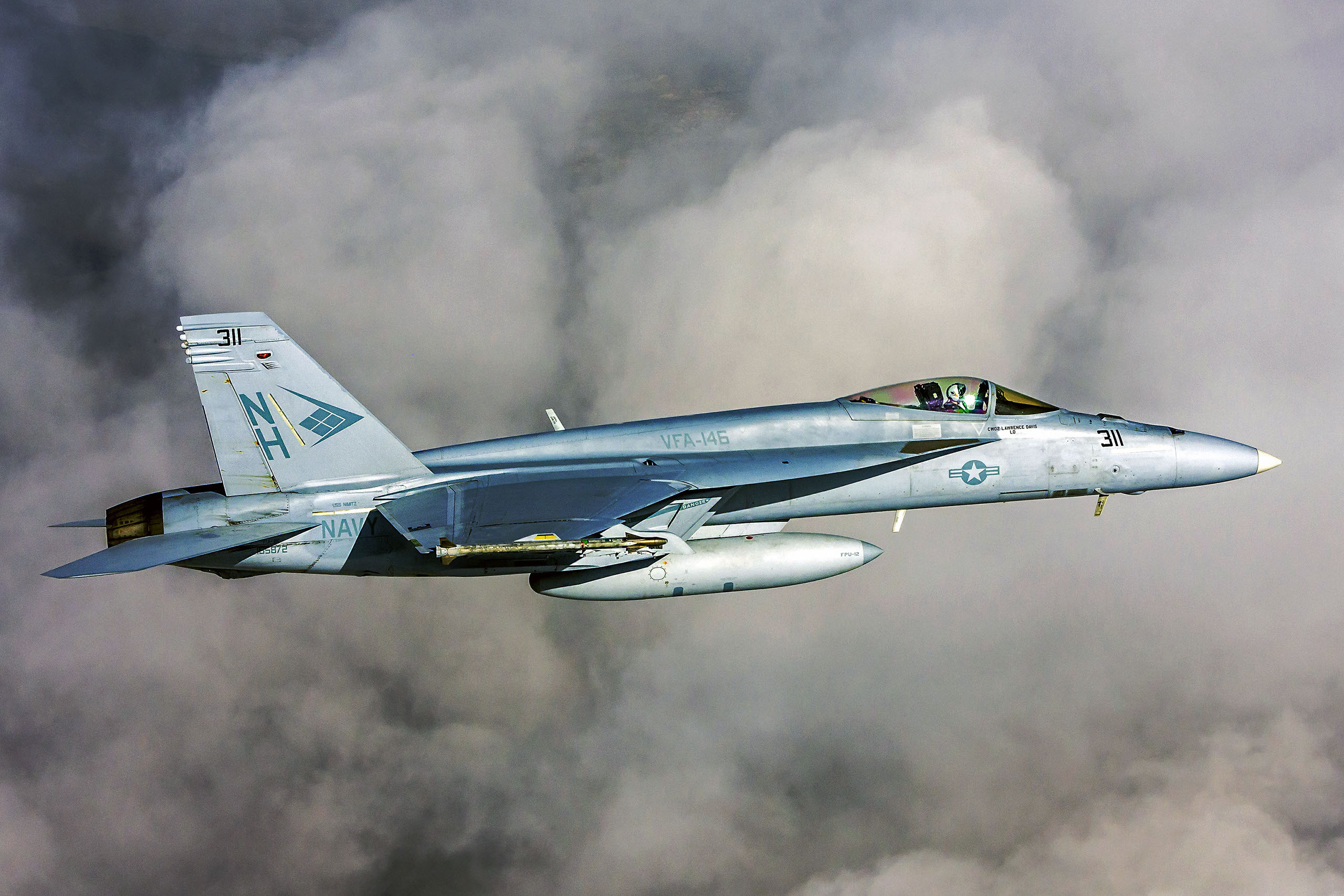 A U.S. Navy Boeing F/A-18E Super Hornet (BuNo 165872) of Strike Fighter Squadron 146 (VFA-146) "Blue Diamonds" in flight on 2 August 2015.